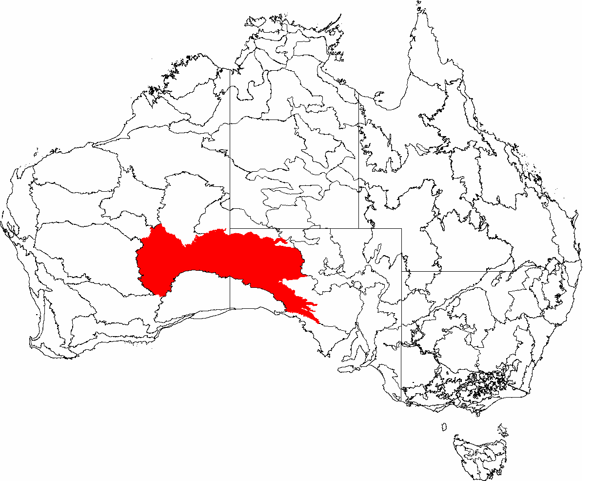 This is a map of the Interim Biogeographic Regionalisation of Australia (IBRA), with state boundaries overlaid. The Great Victoria Desert region is shown in red.